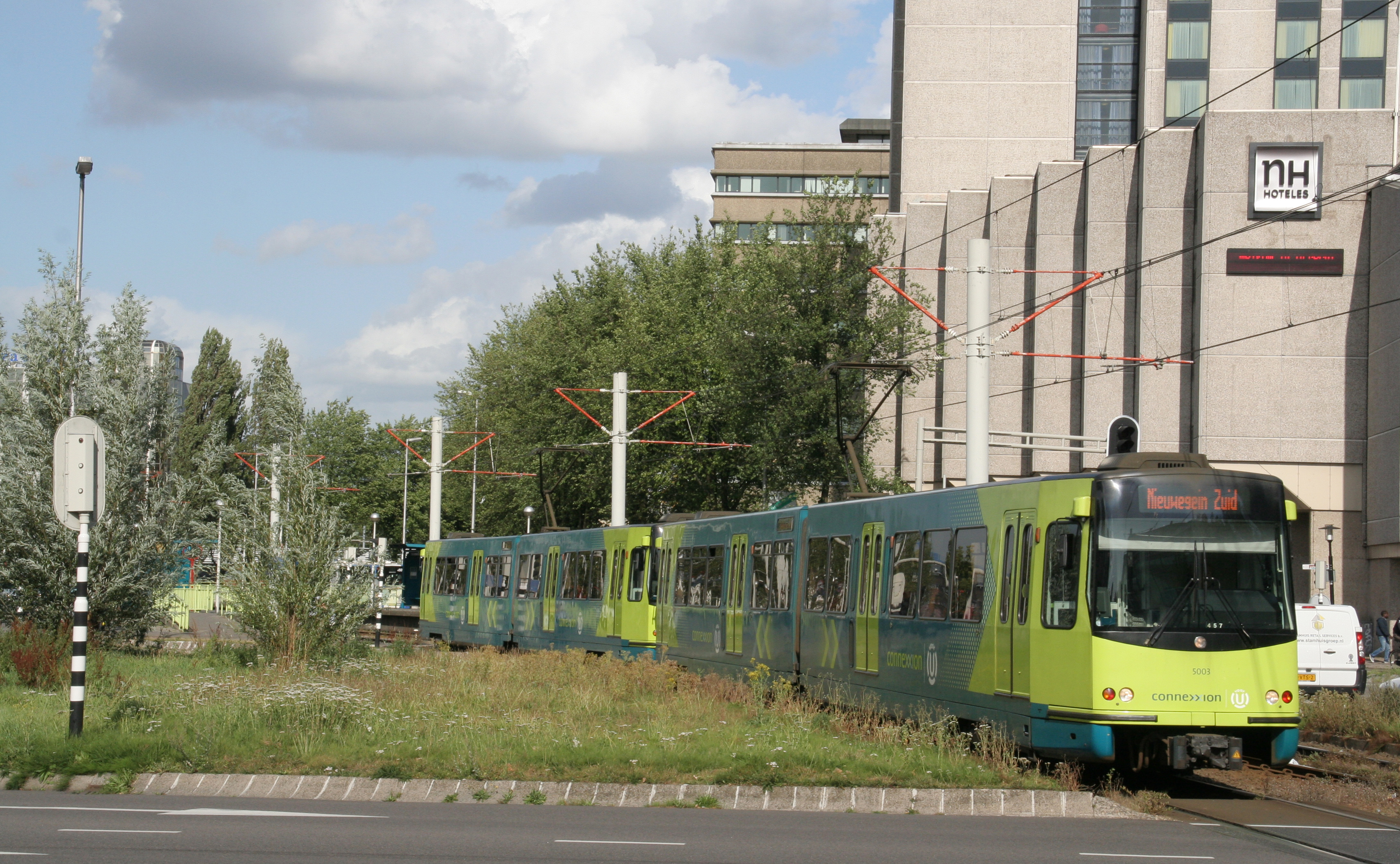 Dutch sneltram in Utrecht